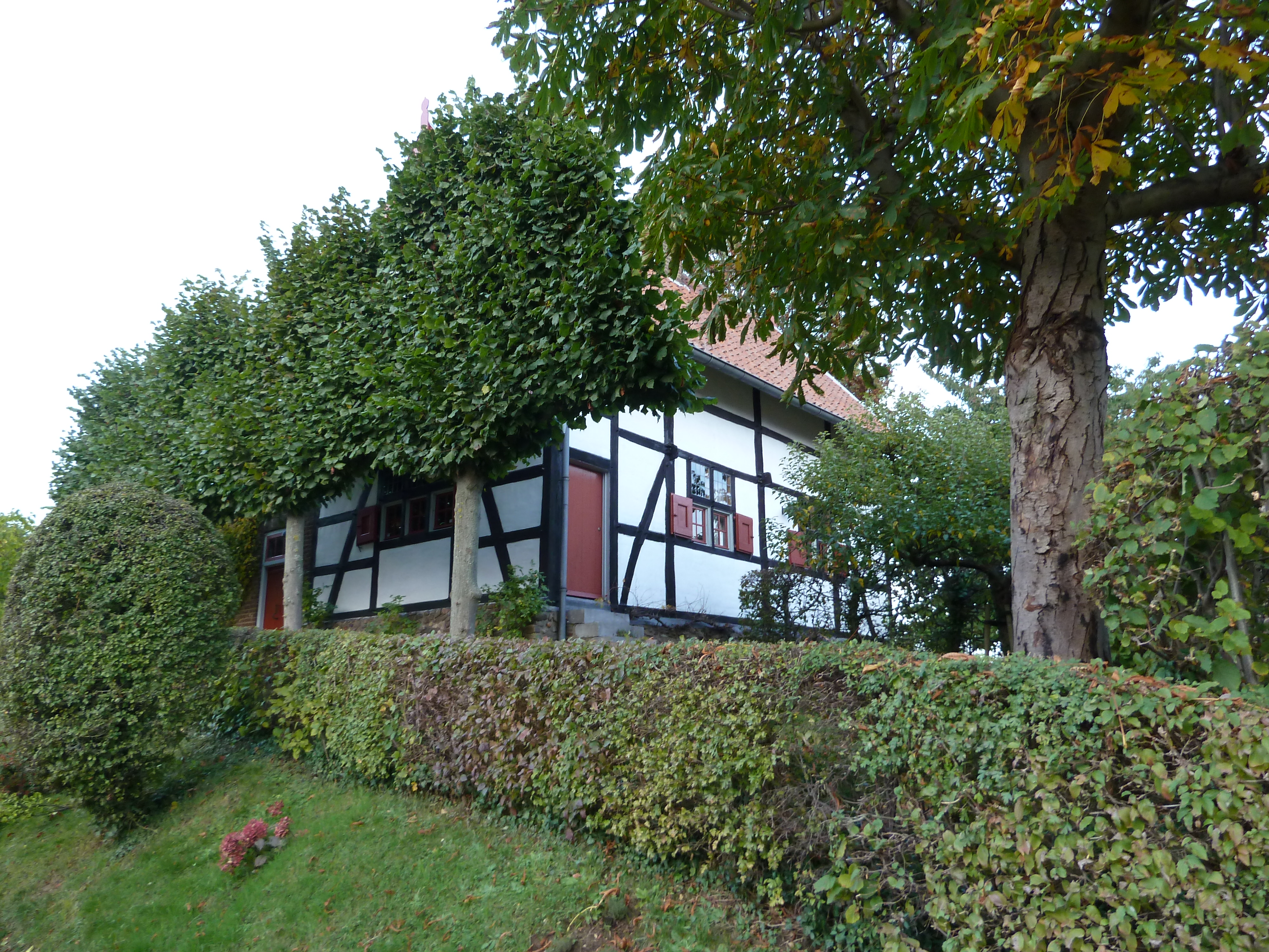 Bergstraat 16, Banholt, Limburg, the Netherlands